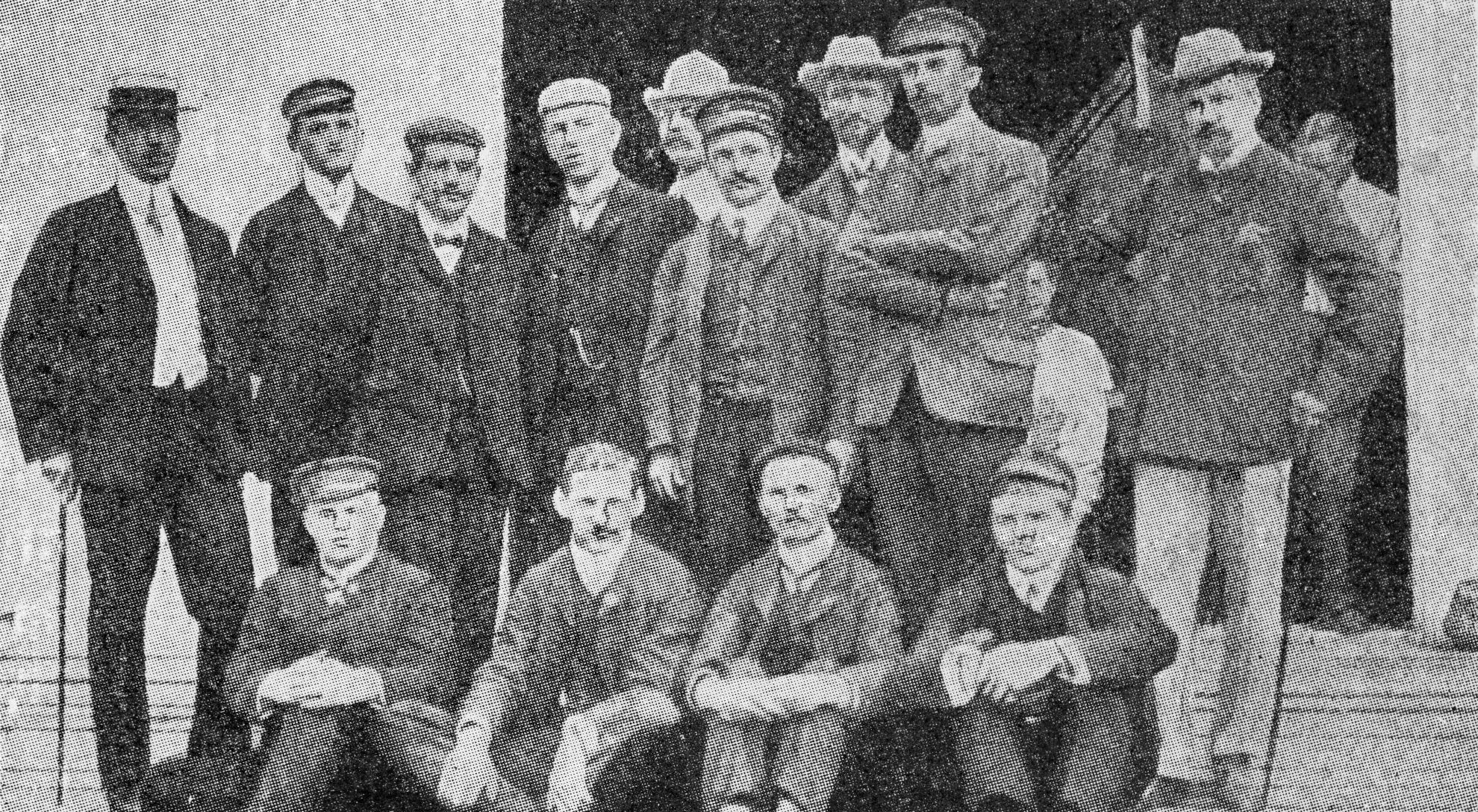 Book by Pierre de Coubertin